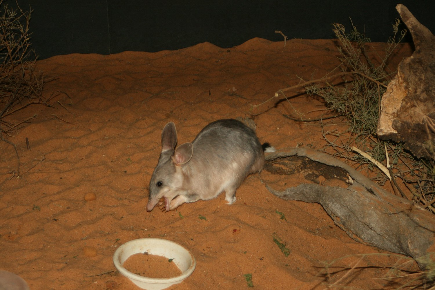 Four Bilbys have an enclosure in the Monarto Zoo Information Centre. This guy stood long enough for me to get a clean shot.